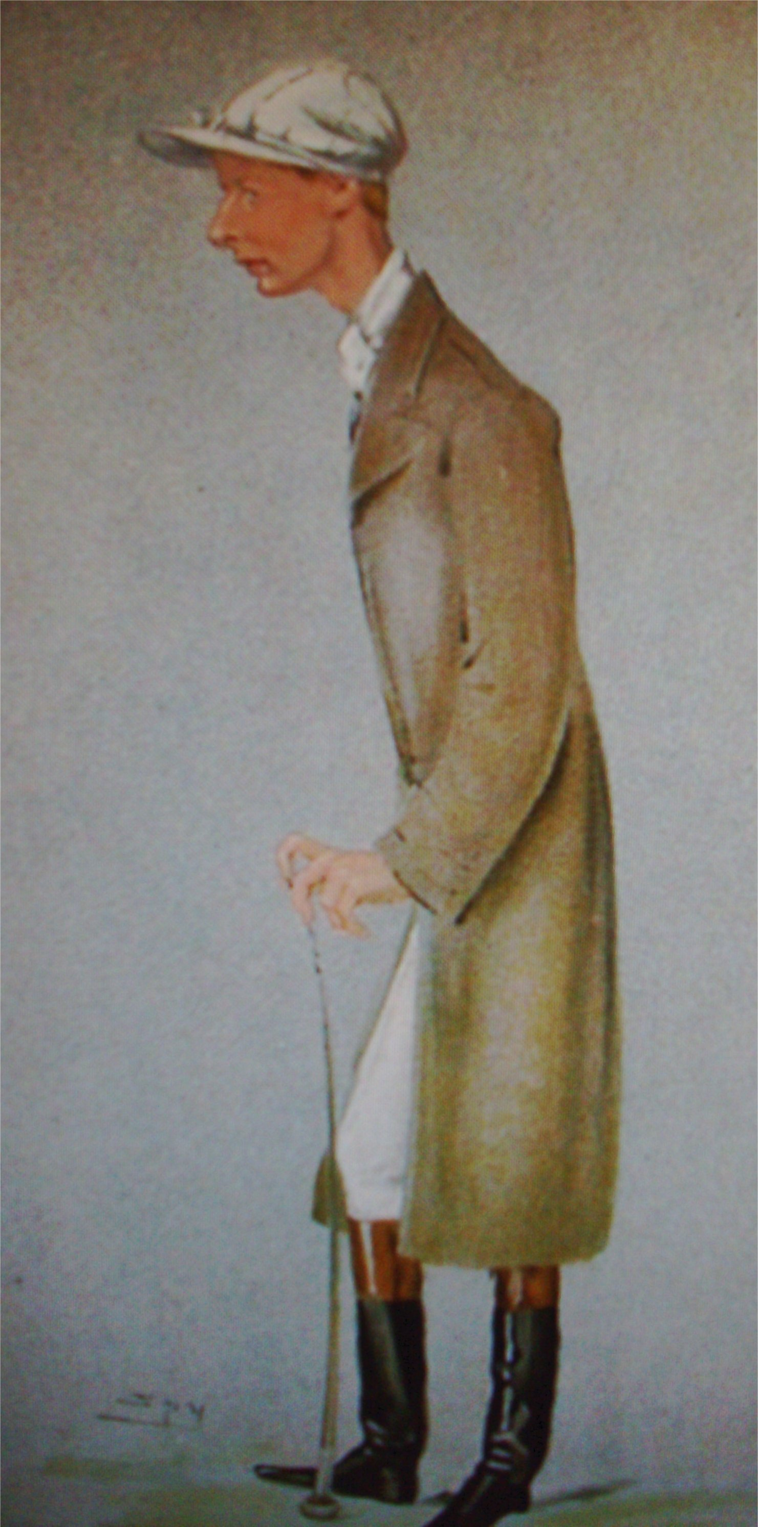 Caricature of American jockey Lester Berchart Reiff 1877-1948).